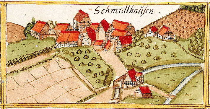 View of Schmidhausen, Beilstein, from the forest register books created by Andreas Kieser